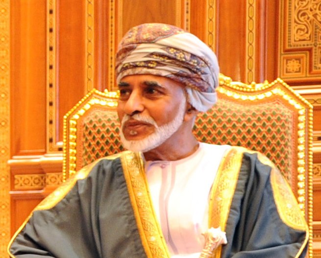 U.S. Secretary of State John Kerry meets with Sultan of Oman Qaboos bin Said Al Said in Muscat, Oman, on May 21, 2013. [State Department photo/ Public Domain]